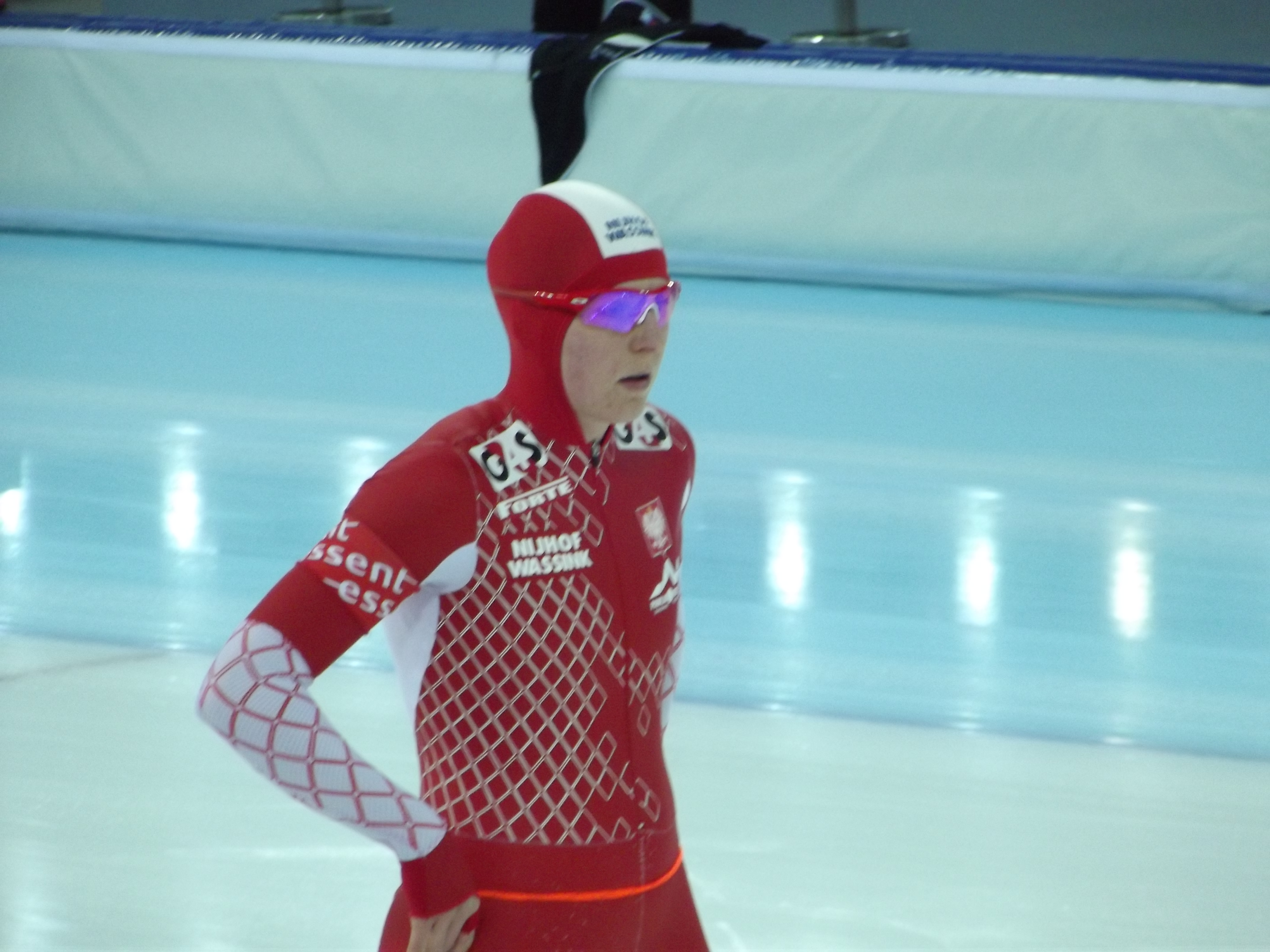 2013 World Single Distance Speed Skating Championships